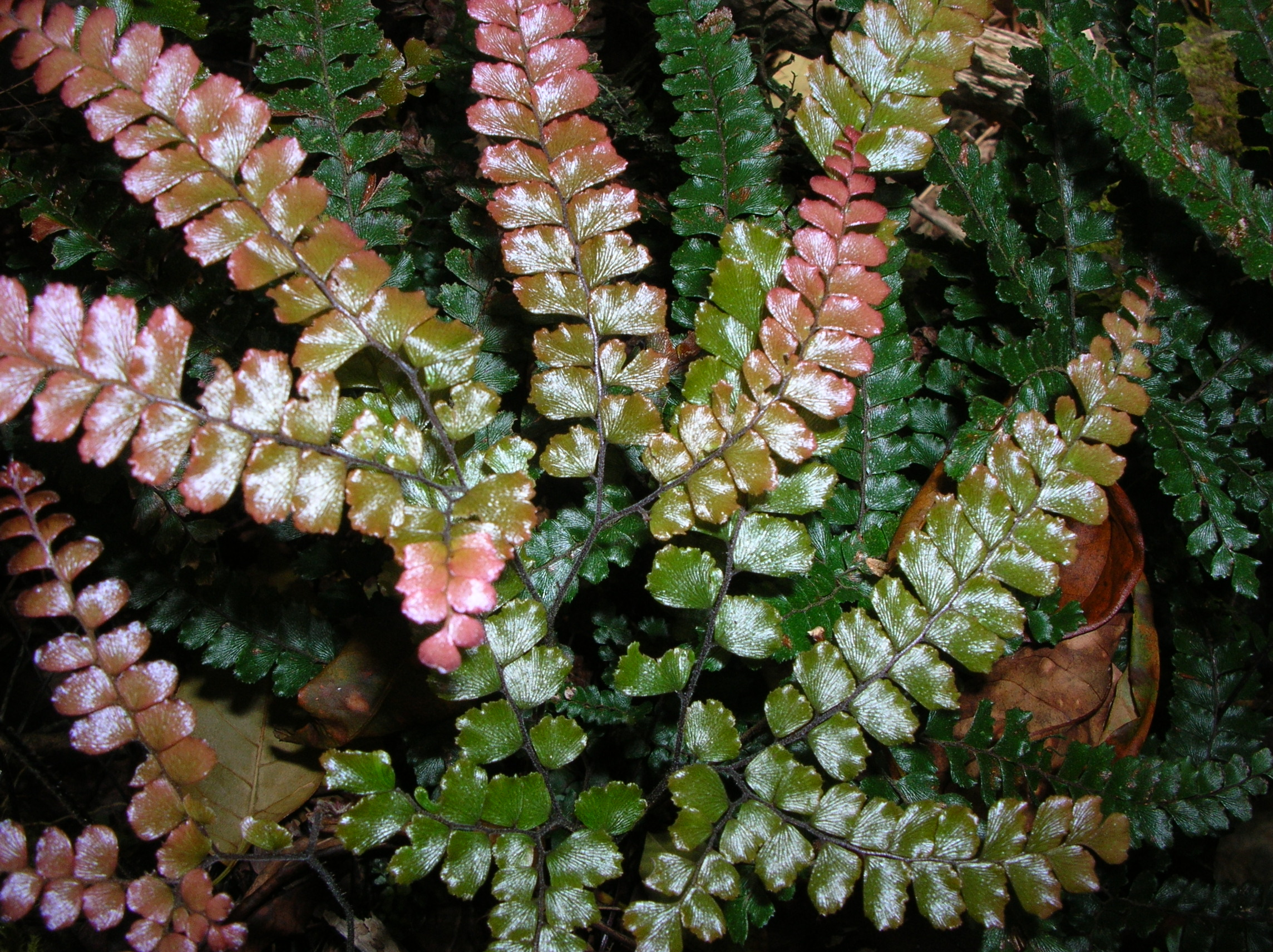 Adiantum hispidulum (fronds). Location: Maui, Makawao Forest Reserve